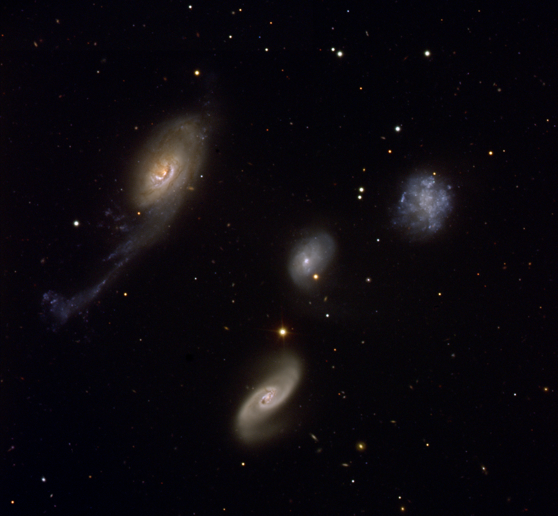 Robert's Quartet is a family of four very different galaxies, located at a distance of about 160 million light-years, close to the centre of the southern constellation of the Phoenix. Its members are NGC 87, NGC 88, NGC 89 and NGC 92, discovered by John Herschel in the 1830s. NGC 87 (upper right) is an irregular galaxy similar to the satellites of our Milky Way, the Magellanic Clouds. NGC 88 (centre) is a spiral galaxy with an external diffuse envelope, most probably composed of gas. NGC 89 (lower middle) is another spiral galaxy with two large spiral arms. The largest member of the system, NGC 92 (left), is a spiral Sa galaxy with an unusual appearance. One of its arms, about 100,000 light-years long, has been distorted by interactions and contains a large quantity of dust.